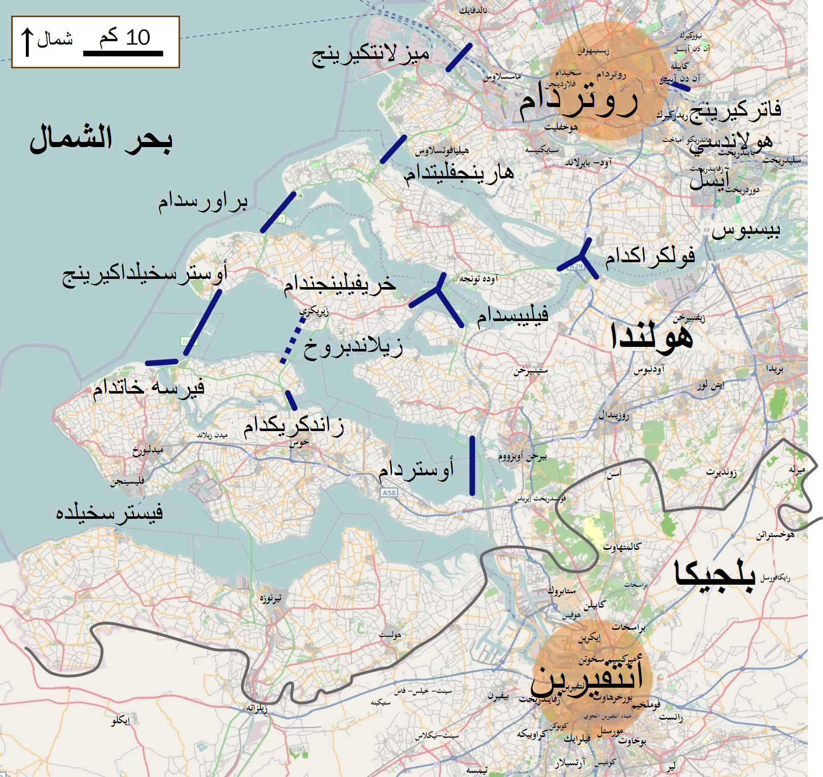 Map of the Deltawerken in Zeeland, The Netherlands in Arabic